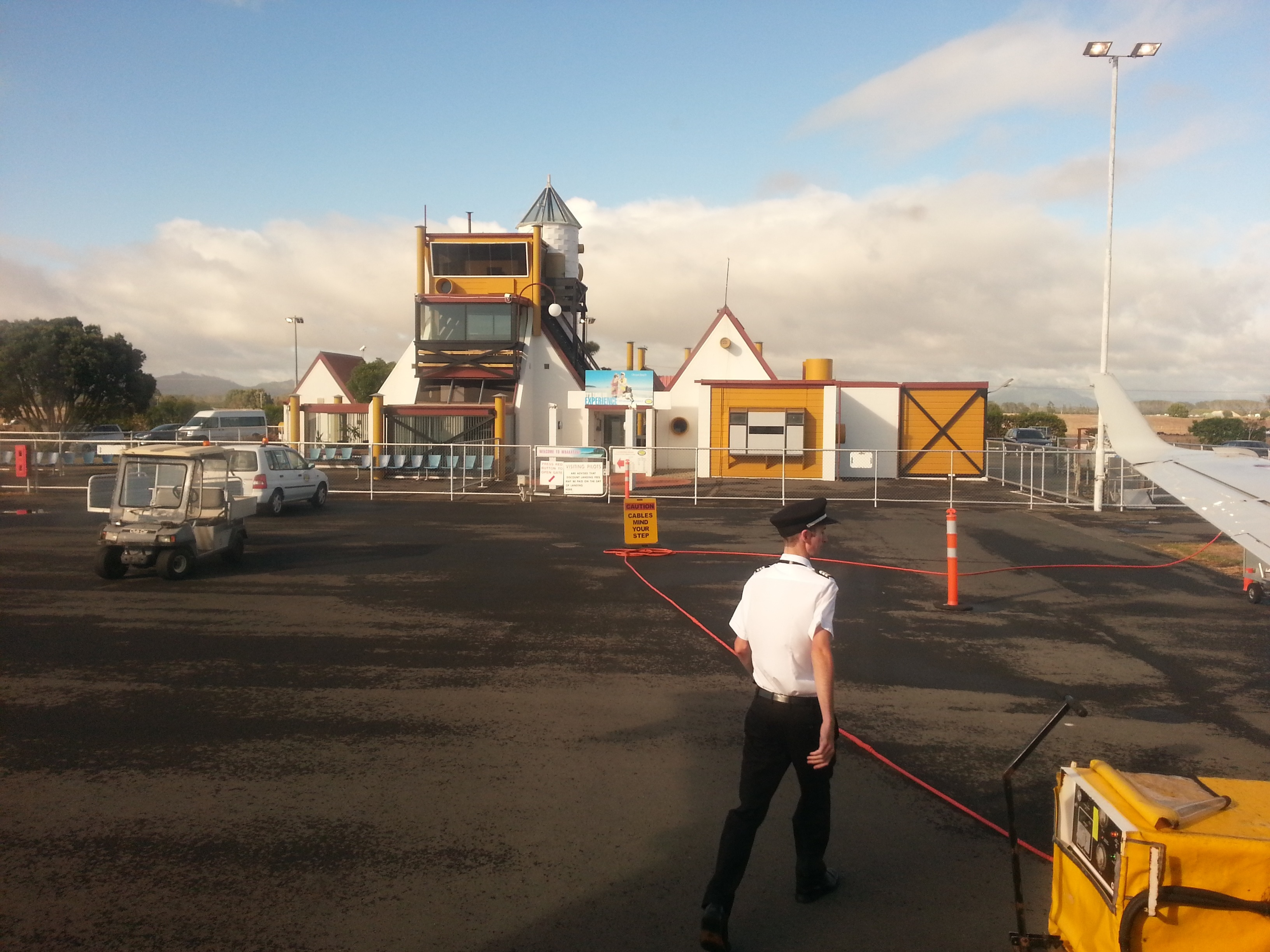 Whakatane Airport terminal, Whakatane, New Zealand, 18 March 2013. Taken from aircraft.